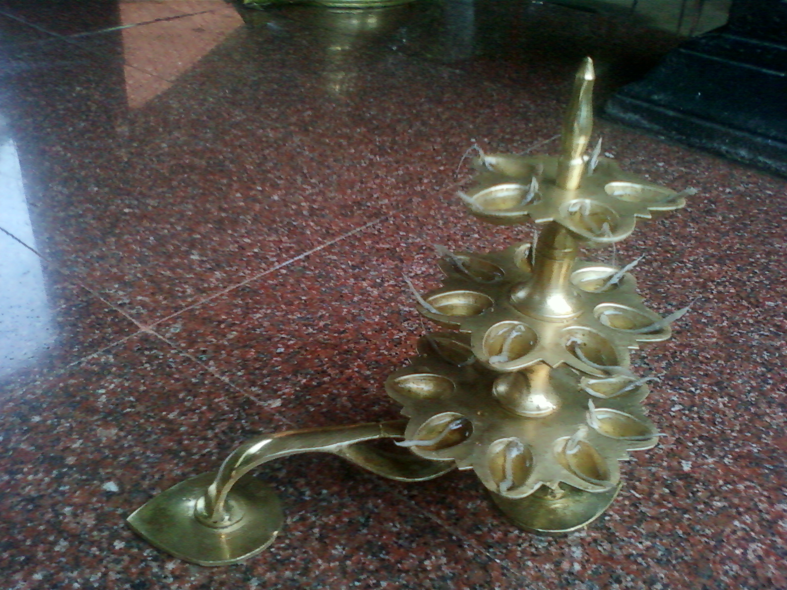 A Lamp used in Deeparandhana